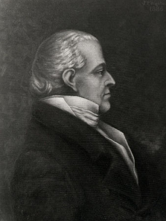 Robert Wright Medium: Oil on canvas